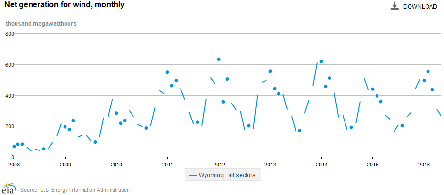 monthly wind power production in Wyoming between 2008-2015. In GWh.